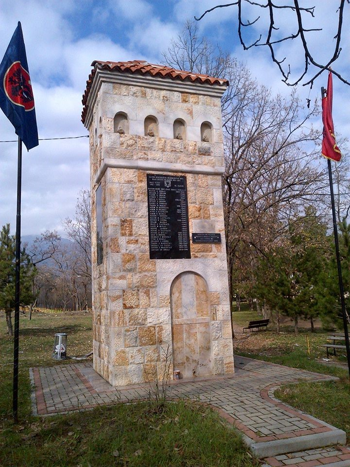 This monument is build in Banja e Pejes. It's about Banja's heroes,during the wars,from World War Two ,until this last war in balkan.This monument made Ali Loxha with his own citizens of Banja e Pejes. The biggest hero during the world war II in Banja e Pejes,was: Bardh Isufi (1887-1943).